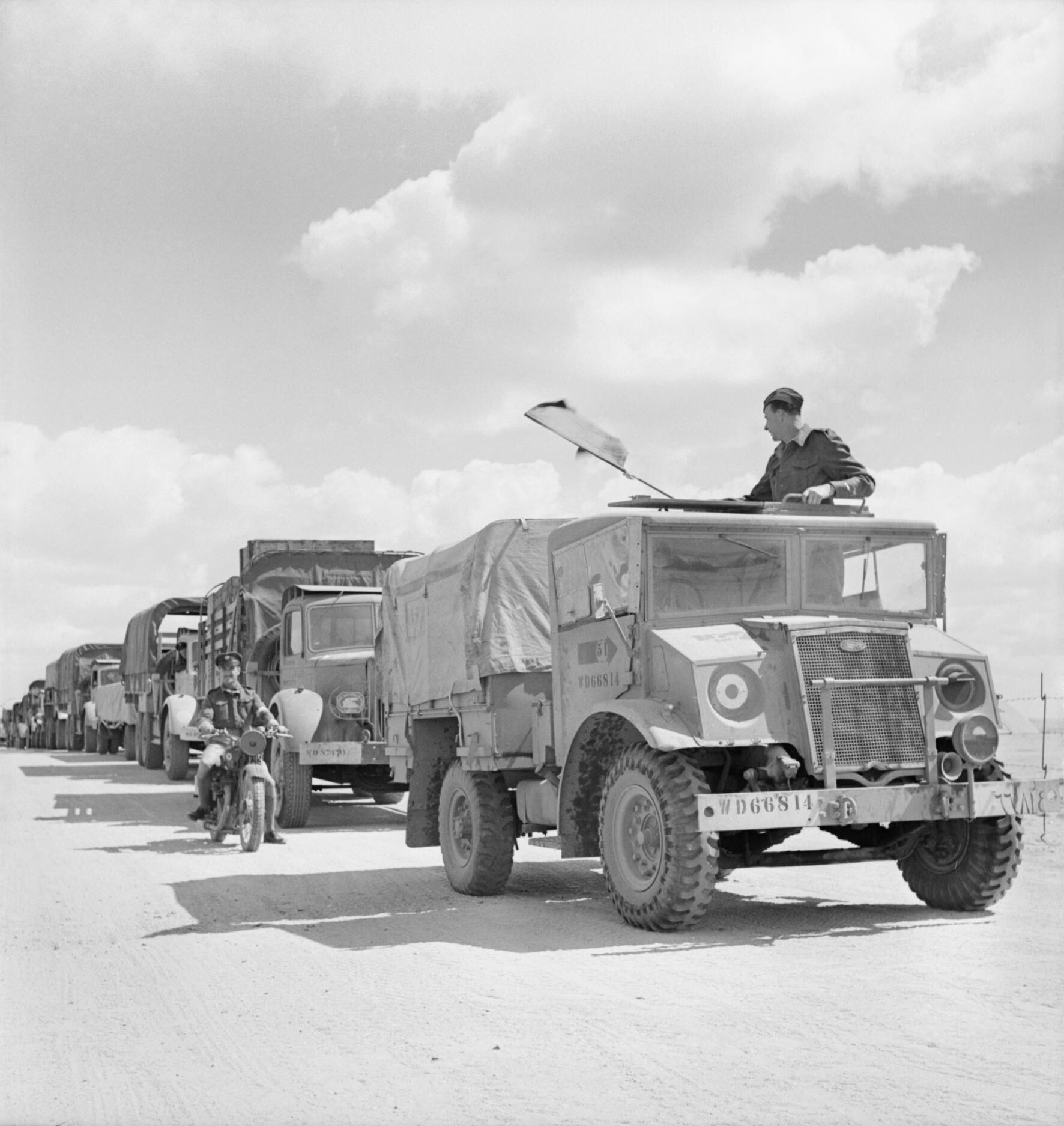 Royal Air Force Operations in the Middle East and North Africa, 1939-1943. The leader of an RAF transport convoy bound for Tunisia signals his vehicles to move off from their base in Libya.